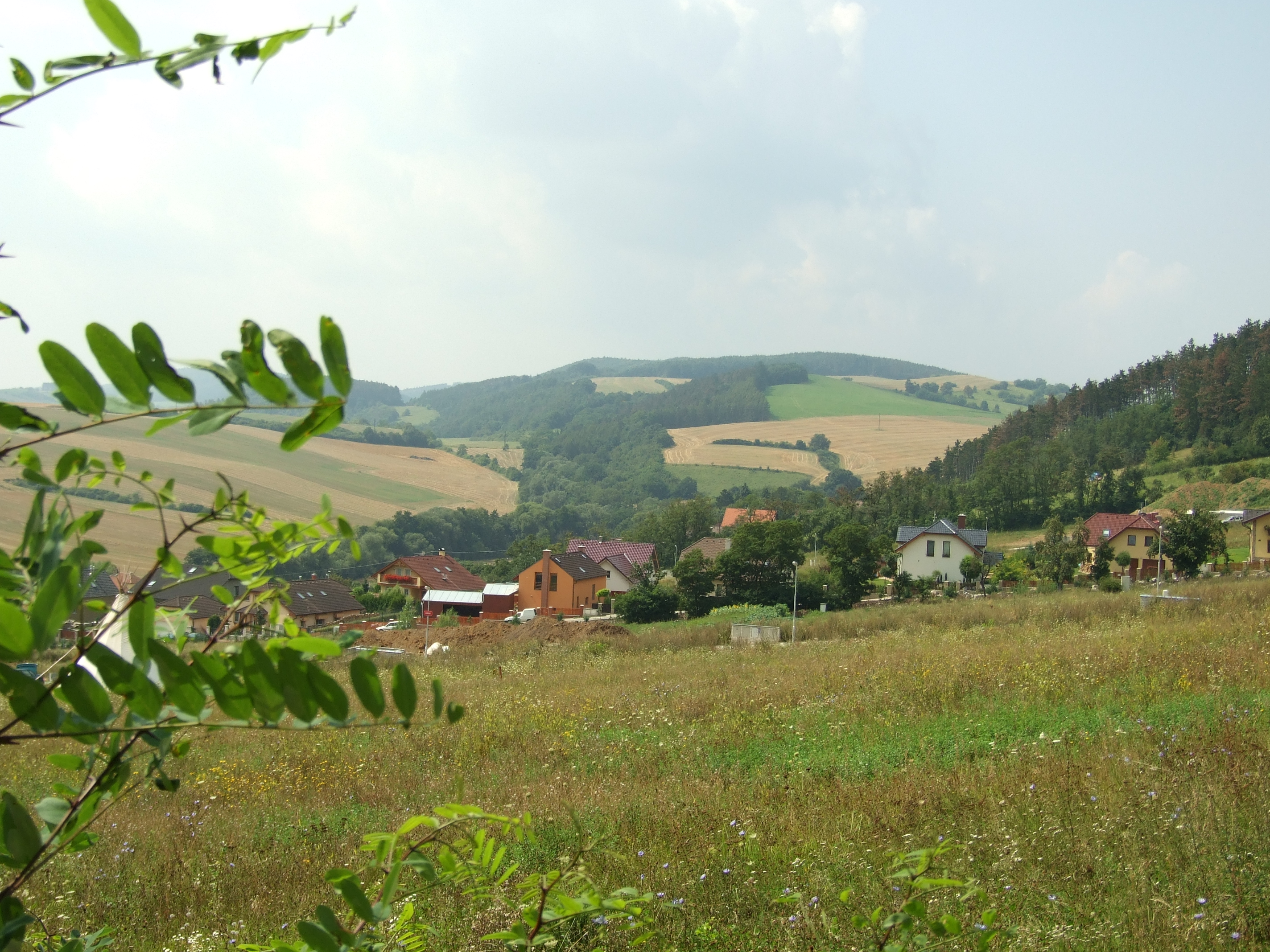 Zahořany, part of Town of Králův Dvůr in Central Bohemian region, CZhelp